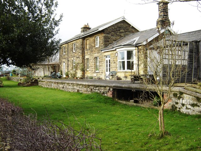 Nawton Railway Station that was. It is over 40 years since the last train but the platform still stands.